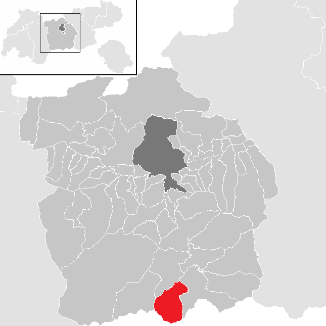 District Innsbruck Land